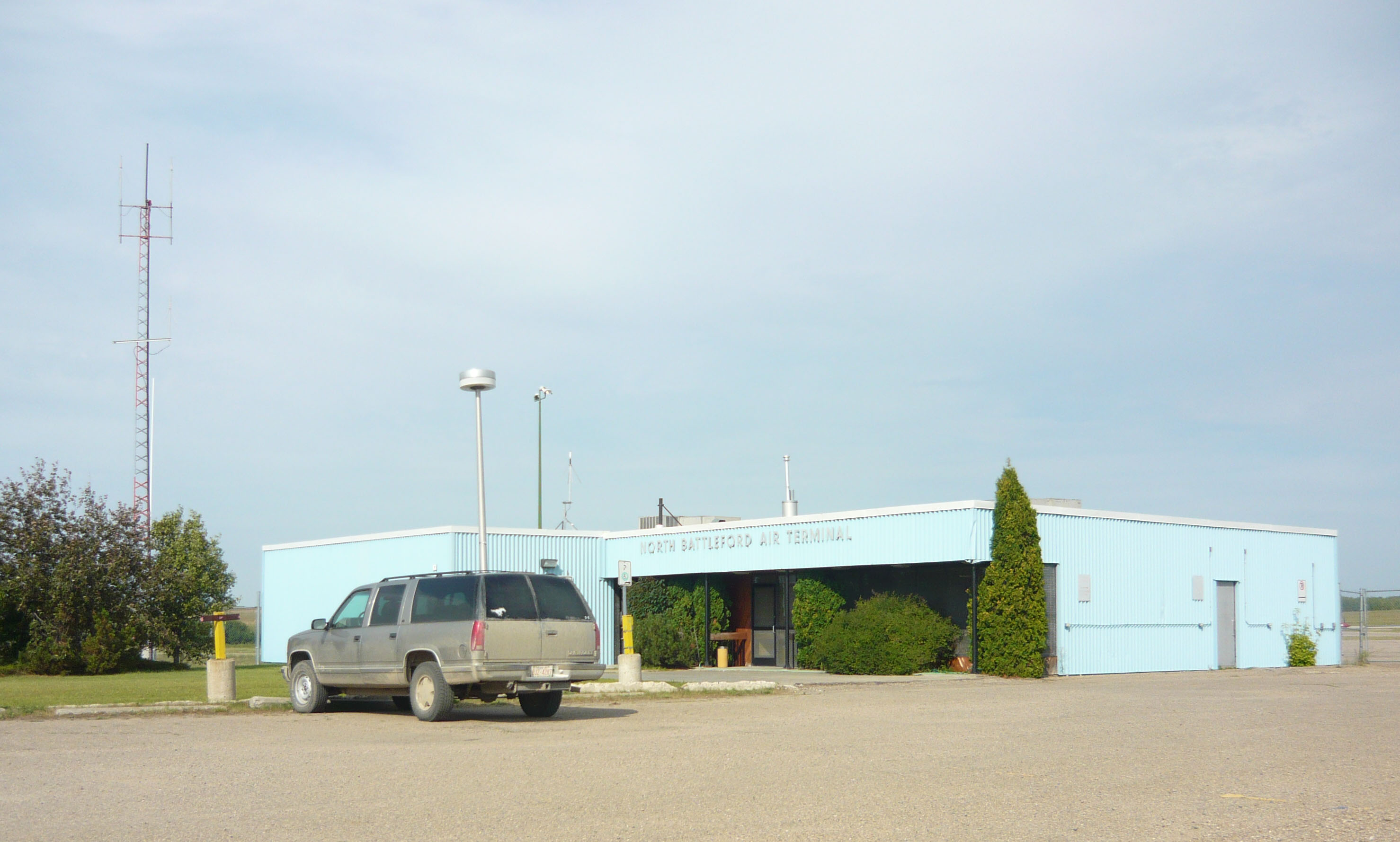 North Battleford Airport (North Battleford Air Terminal), Airport Road, North Battleford, Saskatchewan, Canada. Code: YQW.